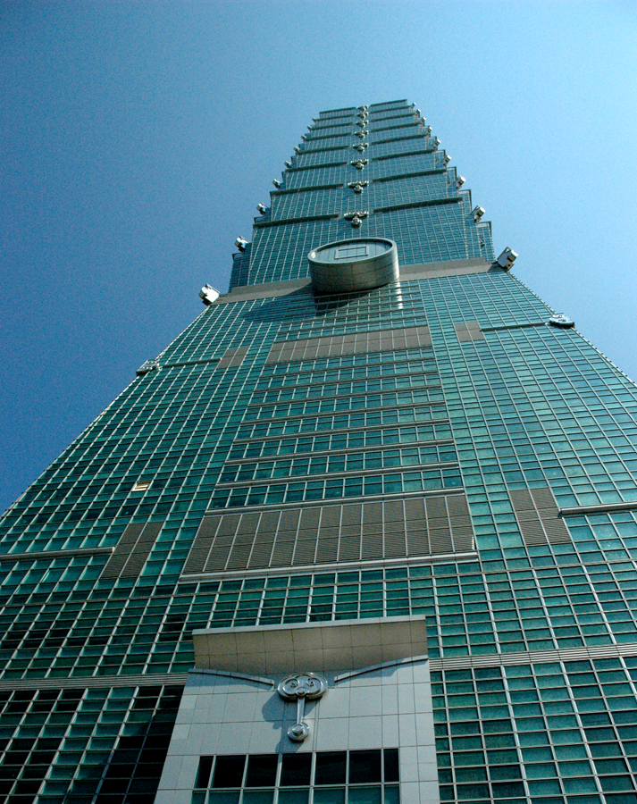 Taipei 101, Taiwan. (Alton Thompson)